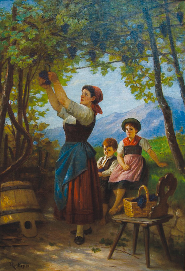 Depiction of idealized peasantry gathering grapes